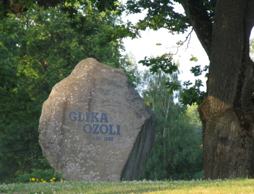 Memorial stone among the oaks of Johann Ernst Glück in Alūksne, Lettland